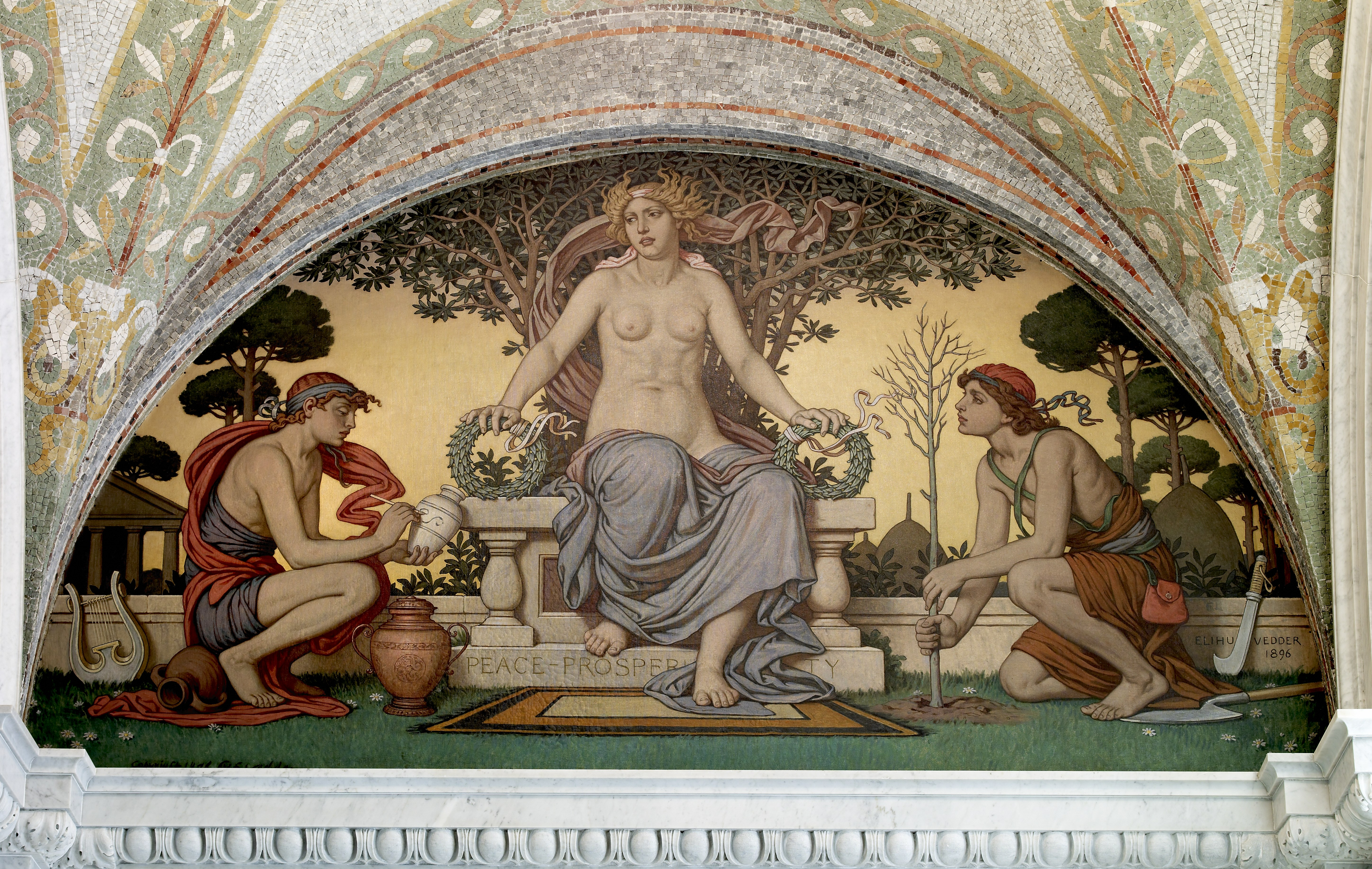 Peace and Prosperity. Mural by Elihu Vedder. Lobby to Main Reading Room, Library of Congress Thomas Jefferson Building, Washington, D.C. Main figure is seated atop a pedestal saying "PEACE–PROSPERITY". Artist's signature is "ELIHU VEDDER / 1896".